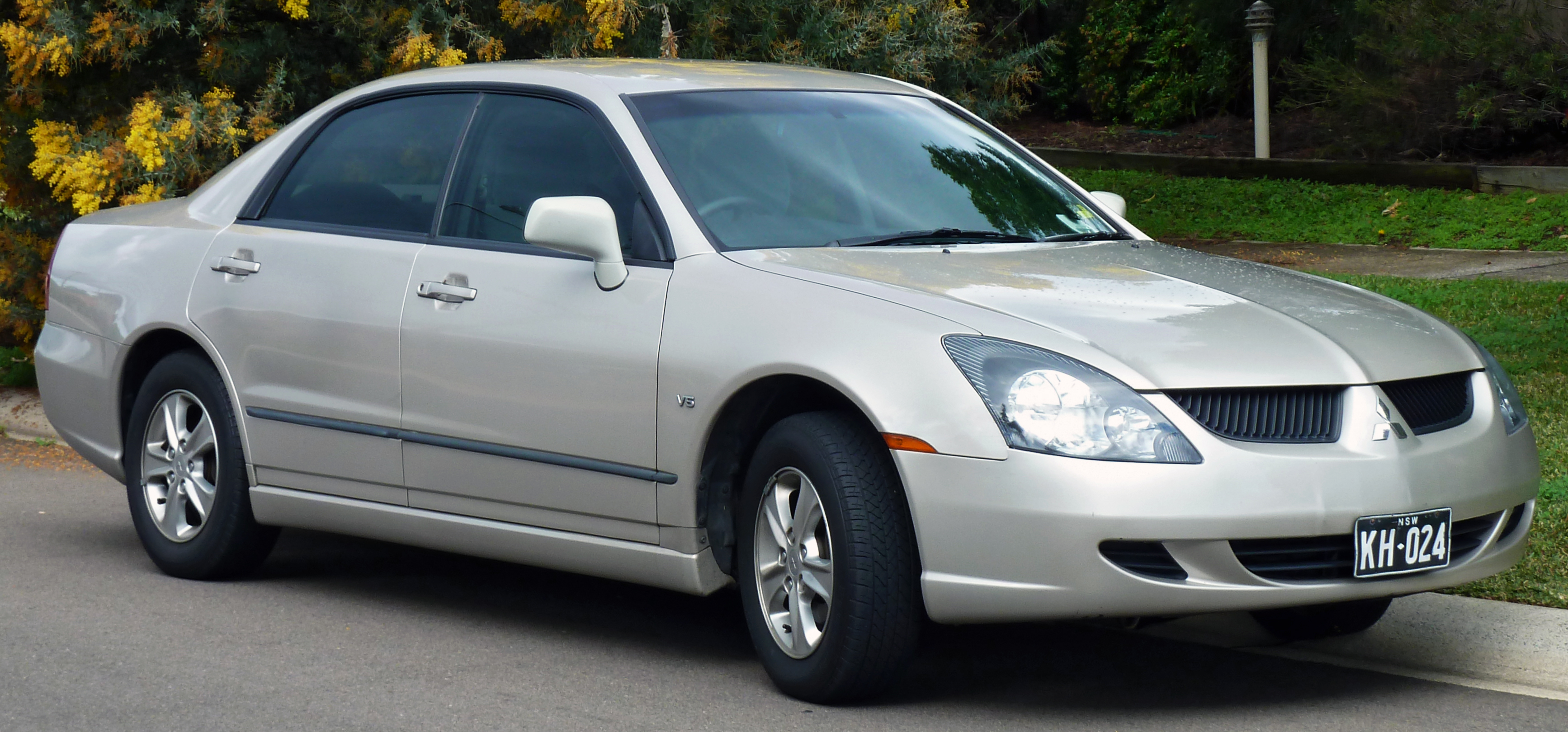 2003 Mitsubishi Magna (TL) LS sedan. Photographed in Woolooware, New South Wales, Australia.